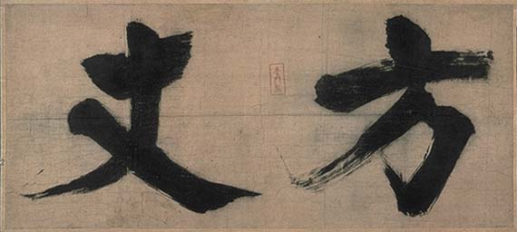 National Treasure Zenin gakuji located at Tōfuku-ji, Kyoto, Japan